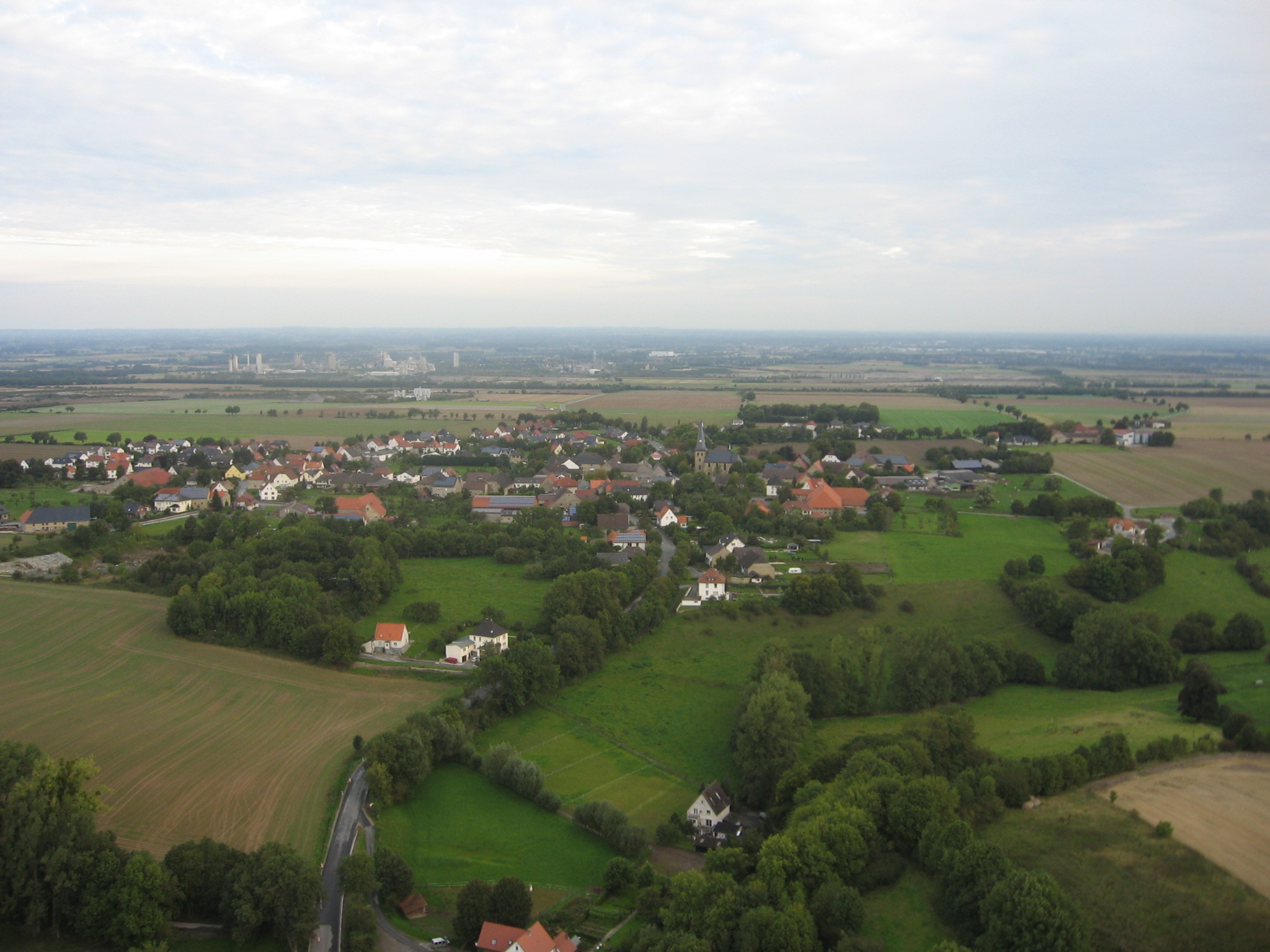 Anröchte-Berge, Germany